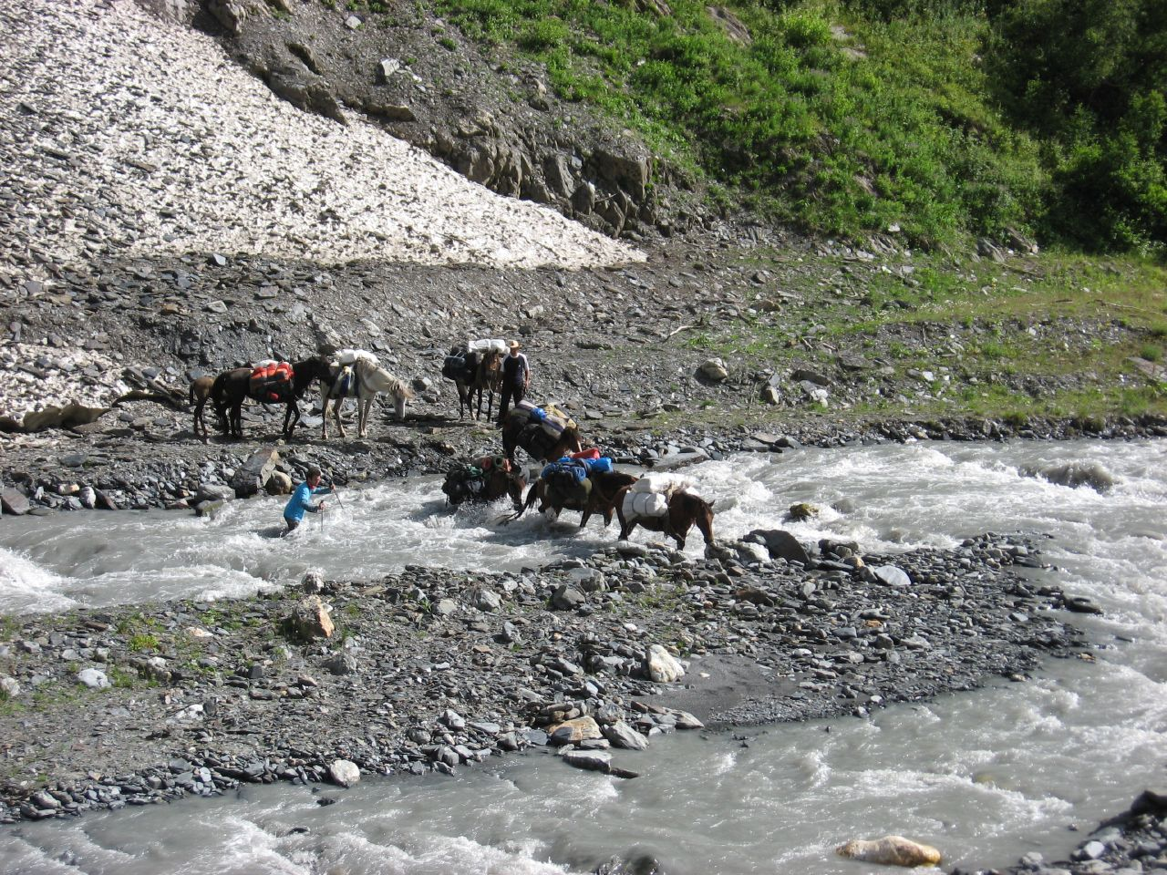 Crossing a river in Tusheti